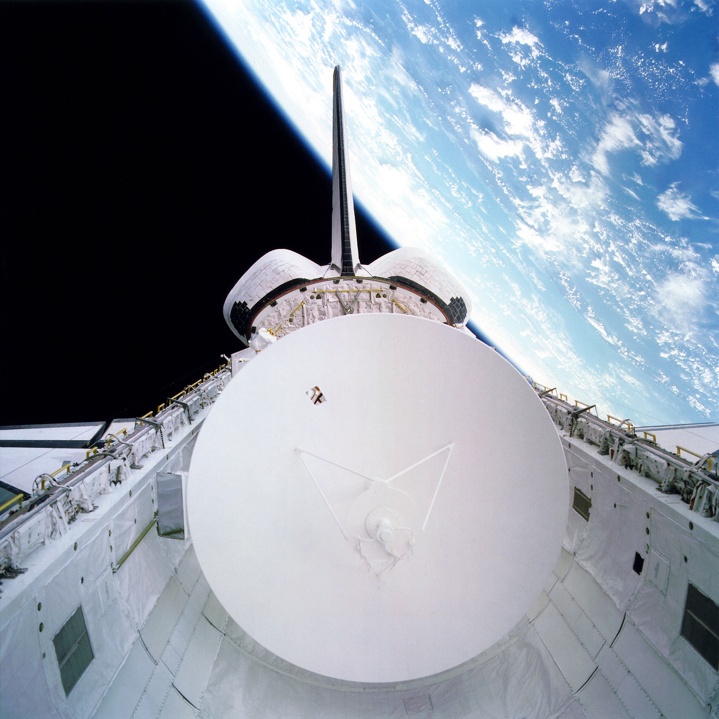 The Magellan spacecraft and its Inertial Upper Stage in the payload bay of Space Shuttle Atlantis during the STS-30 mission.